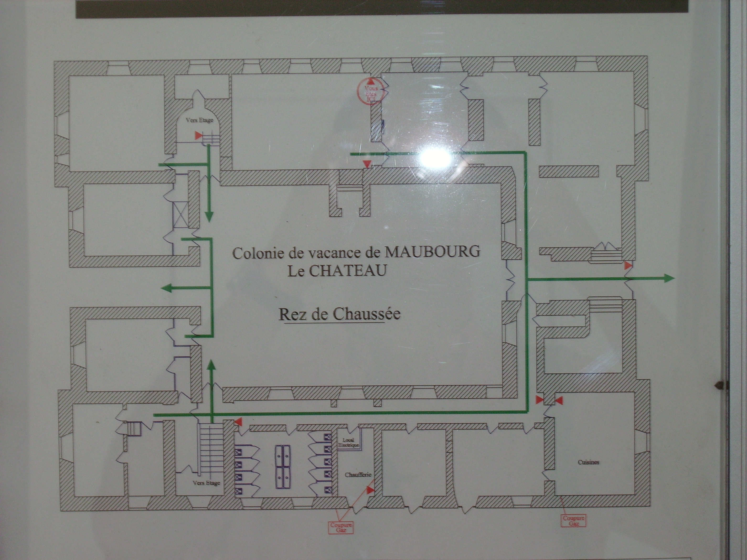 The plan of Maubourg Castle, main floor